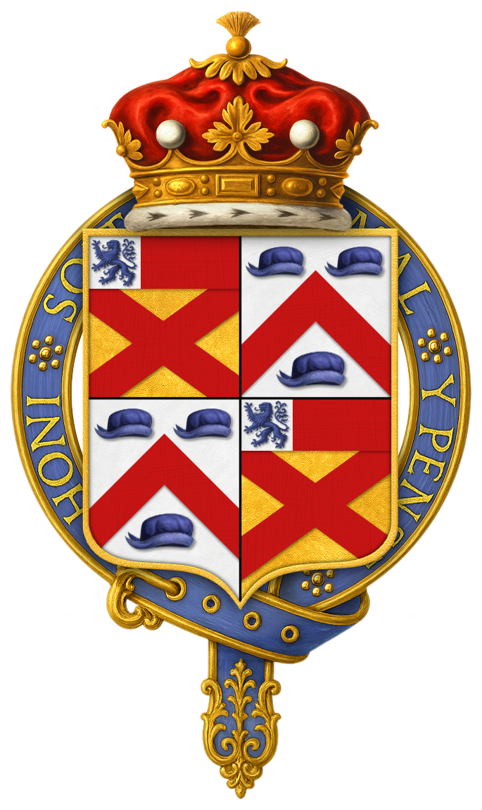 Shield of arms of George Brudenell-Bruce, 2nd Marquess of Ailesbury, as displayed on his Order of the Garter stall plate in St. George's Chapel.